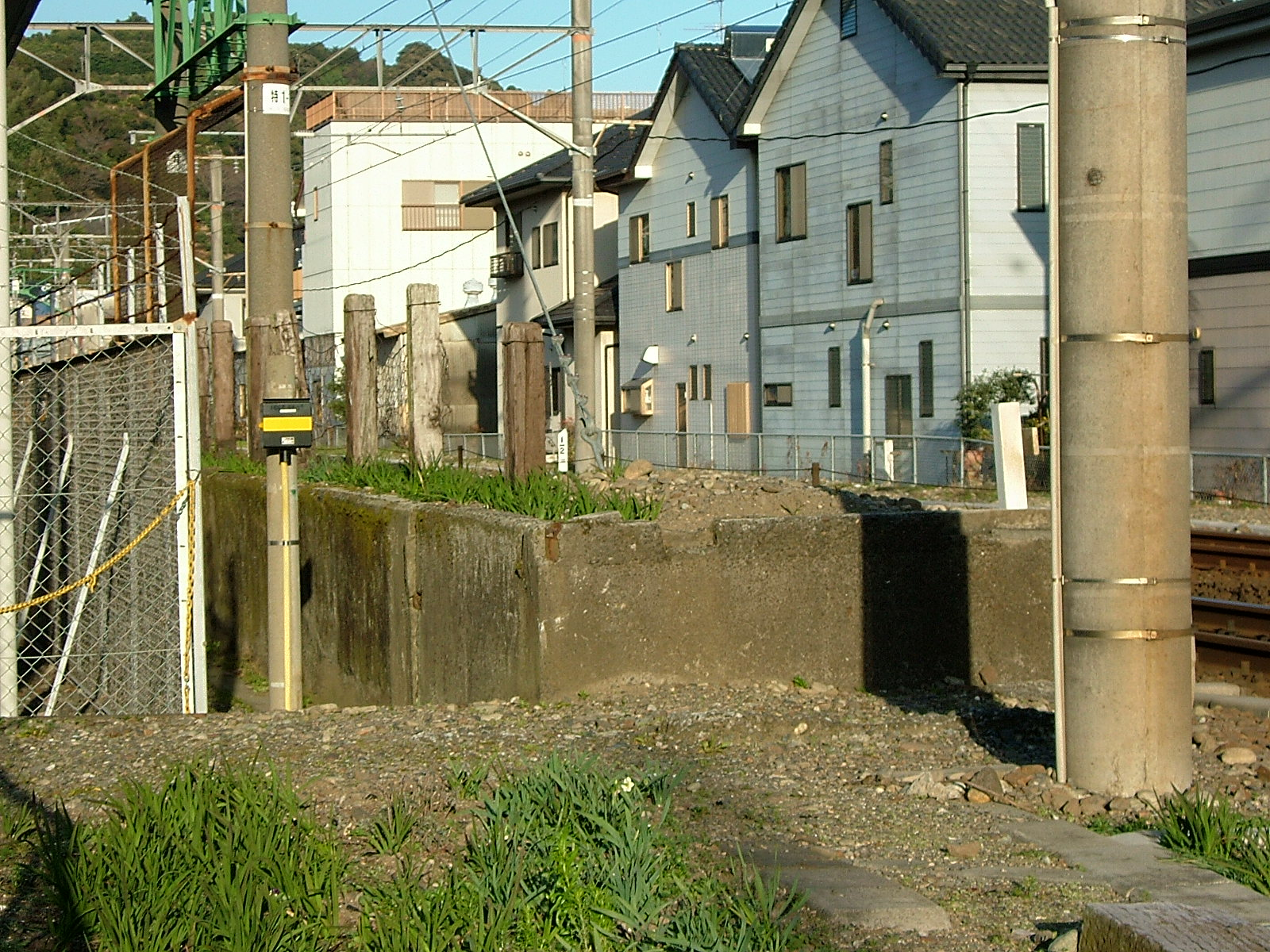 Former site of Sodeshi Station on Tokaido Main Line